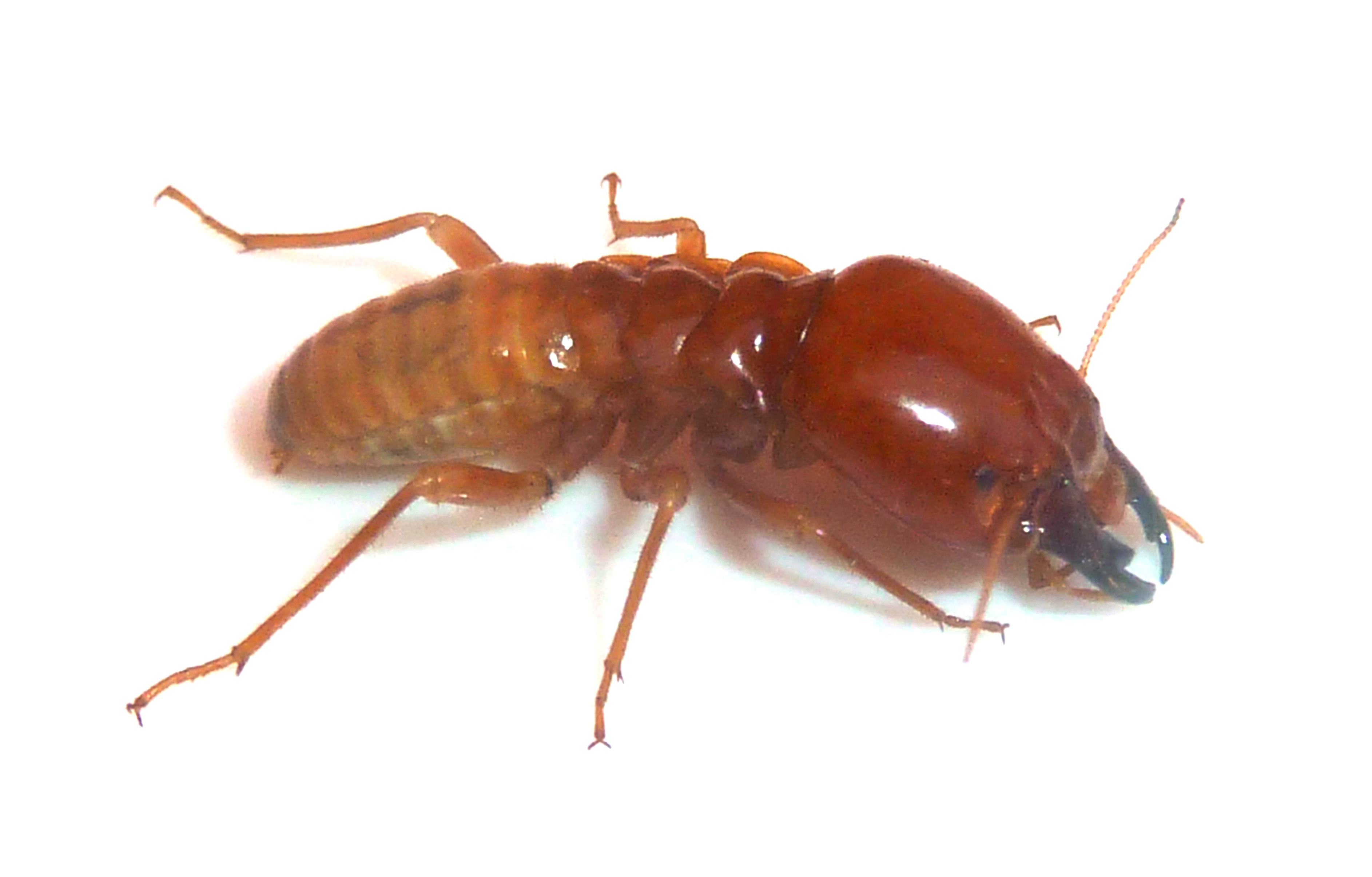 Soldier caste of the Northern harvester termite, collected in the Arcadia suburb of Pretoria